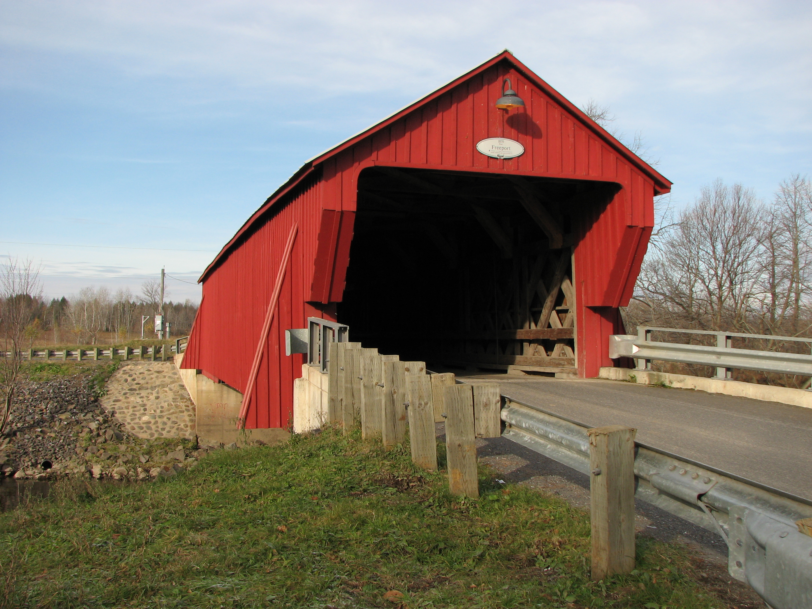 Freeport bridge, Cowansville, QC - Front view